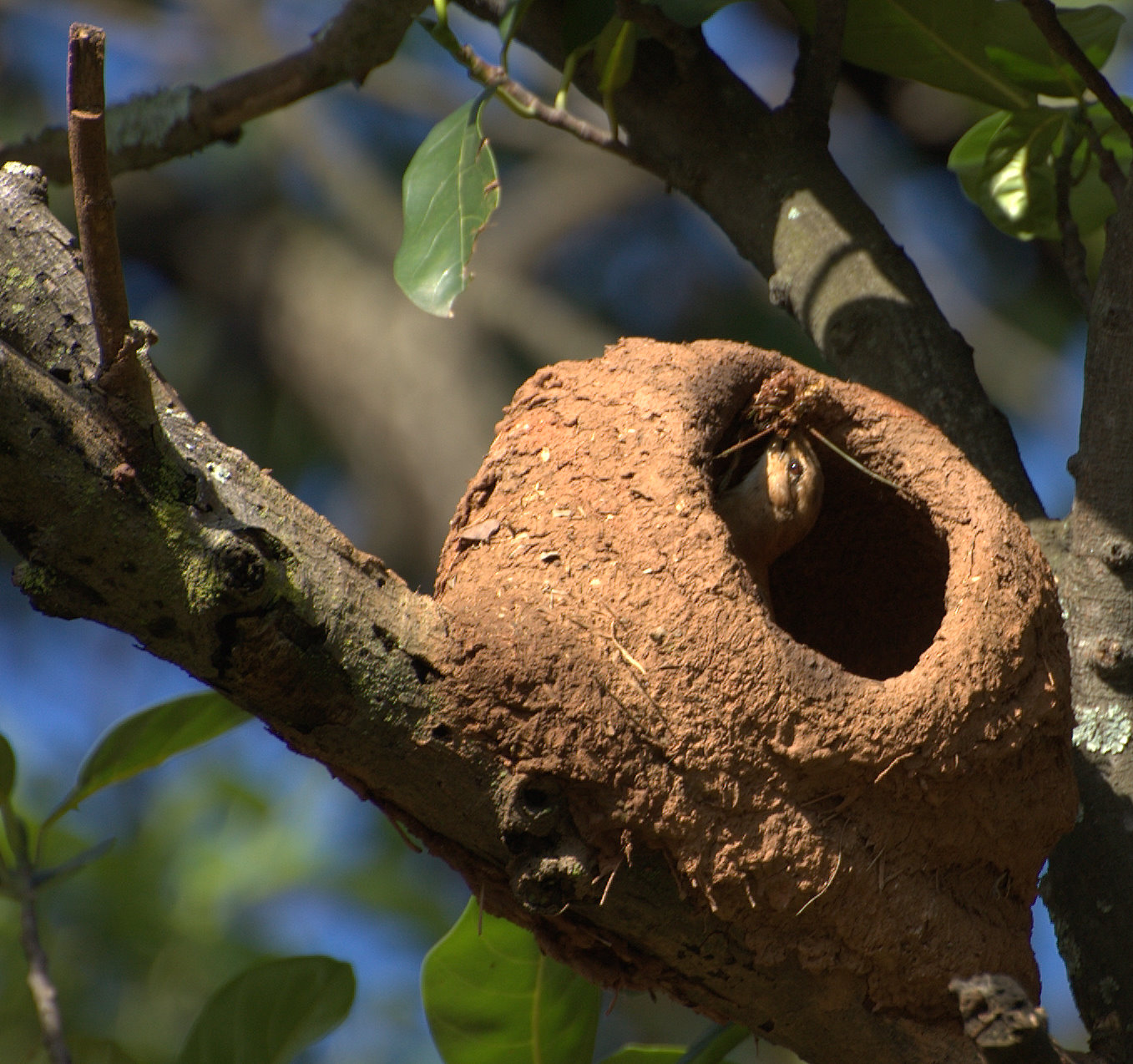 A Rufous Hornero (Furnarius rufus)